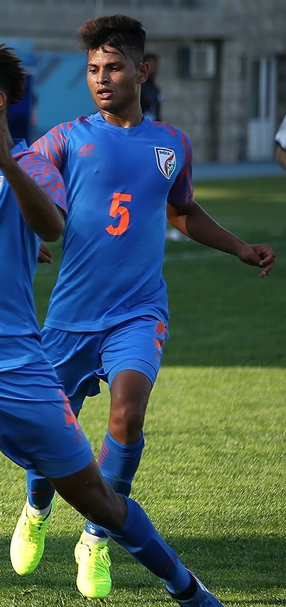 Sanjeev Stalin with India U19 in a 2019 Granatkin Memorial game against Russia U18.